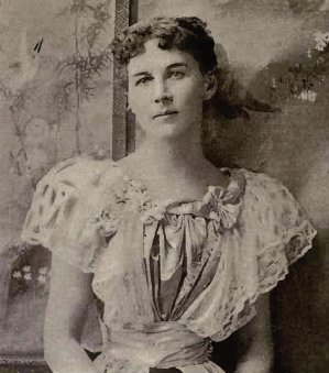 Sara Jeannette Duncan Title: Types of Canadian women and of women who are or have been connected with Canada : (Volume 1) Creator: Morgan, Henry J. (Henry James), 1842-1913 Publisher: Toronto : W. Briggs Date: 1903 Possible Copyright Status: NOT_IN_COPYRIGHT